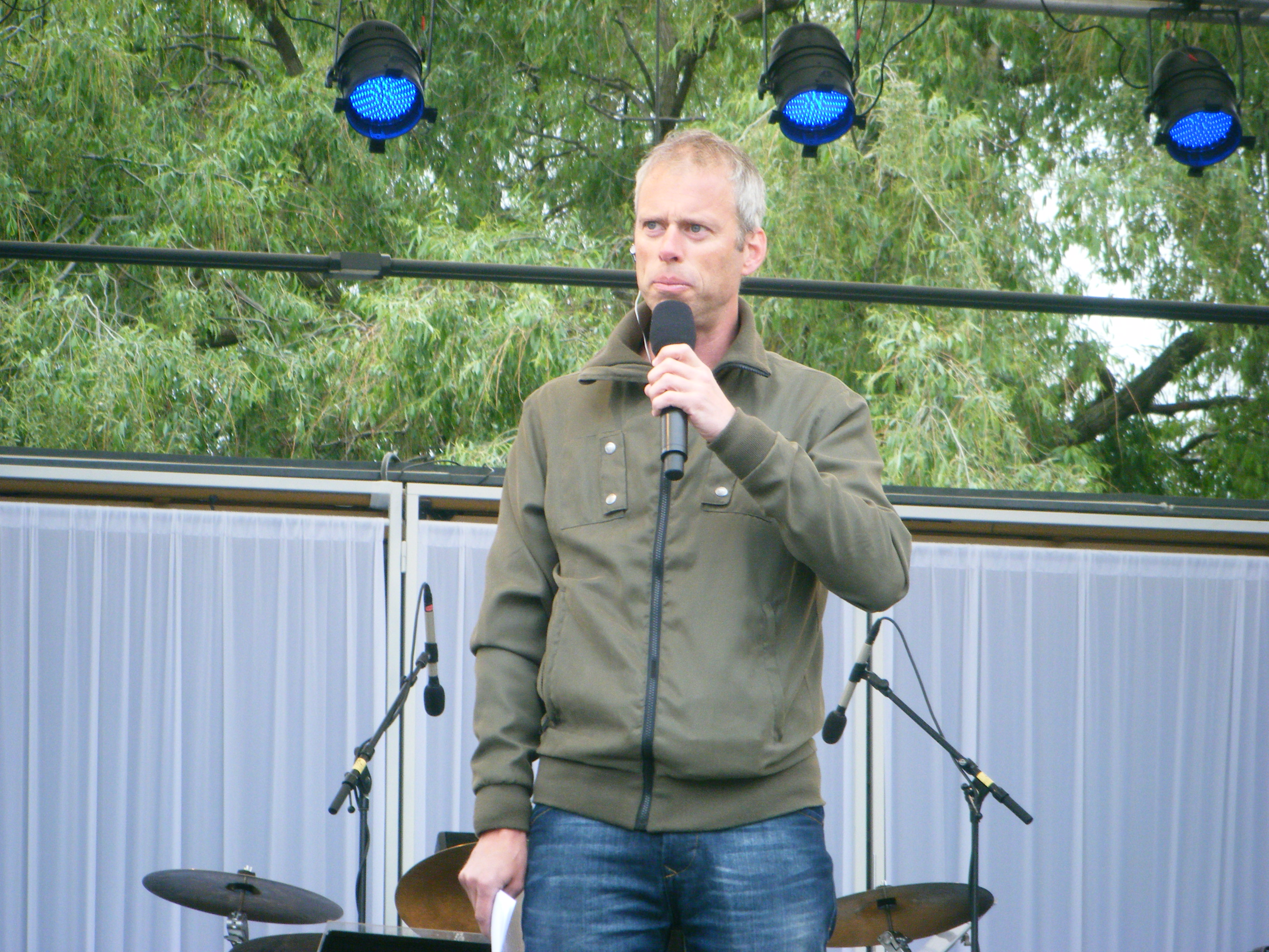 Fredrik Berling, Swedish tv-host